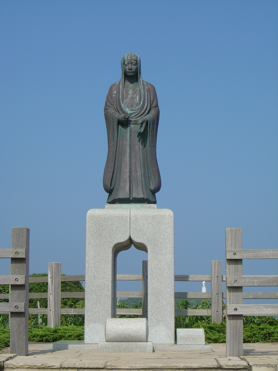 Bronze statue of "Youjuin" in Hachiman cape park.(Katsuura, Chiba)